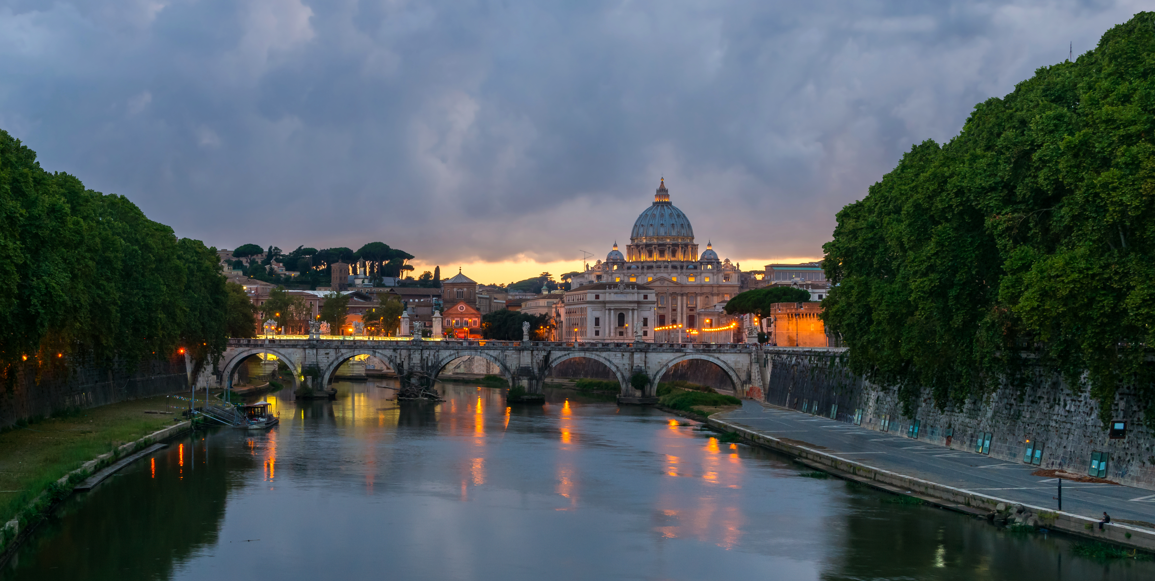 Sant'Angelo bridge (Ponte Sant'Angelo), Saint Peter's Basilica, at dusk, from Umberto I bridge, Rome, Italy.